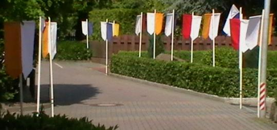 Flags (30cmX50cm) on 2m poles decorating the way of corpus christi processions in Germany. These flags are property of the residents at streets used for processions and set by them in the morning of corpus christi day.